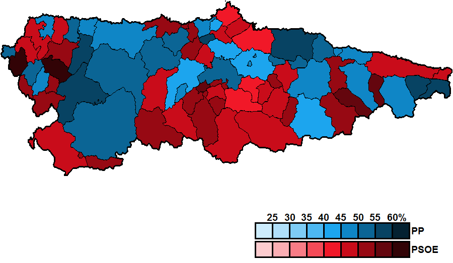 Most-voted party in Asturias municipalities, showing vote share obtained, in the Spanish general election, 2004.